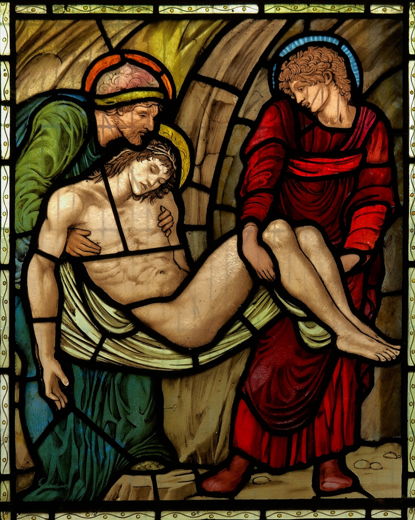 (All Saints)The church contains important and very fine stained glass made by the firm of William Morris,with work by Morris,Burne-Jones,Philip Webb,Ford Madox Brown and Simeon Solomon.chancel N window,by Burne-Jones.Laying Christ in the Tomb.